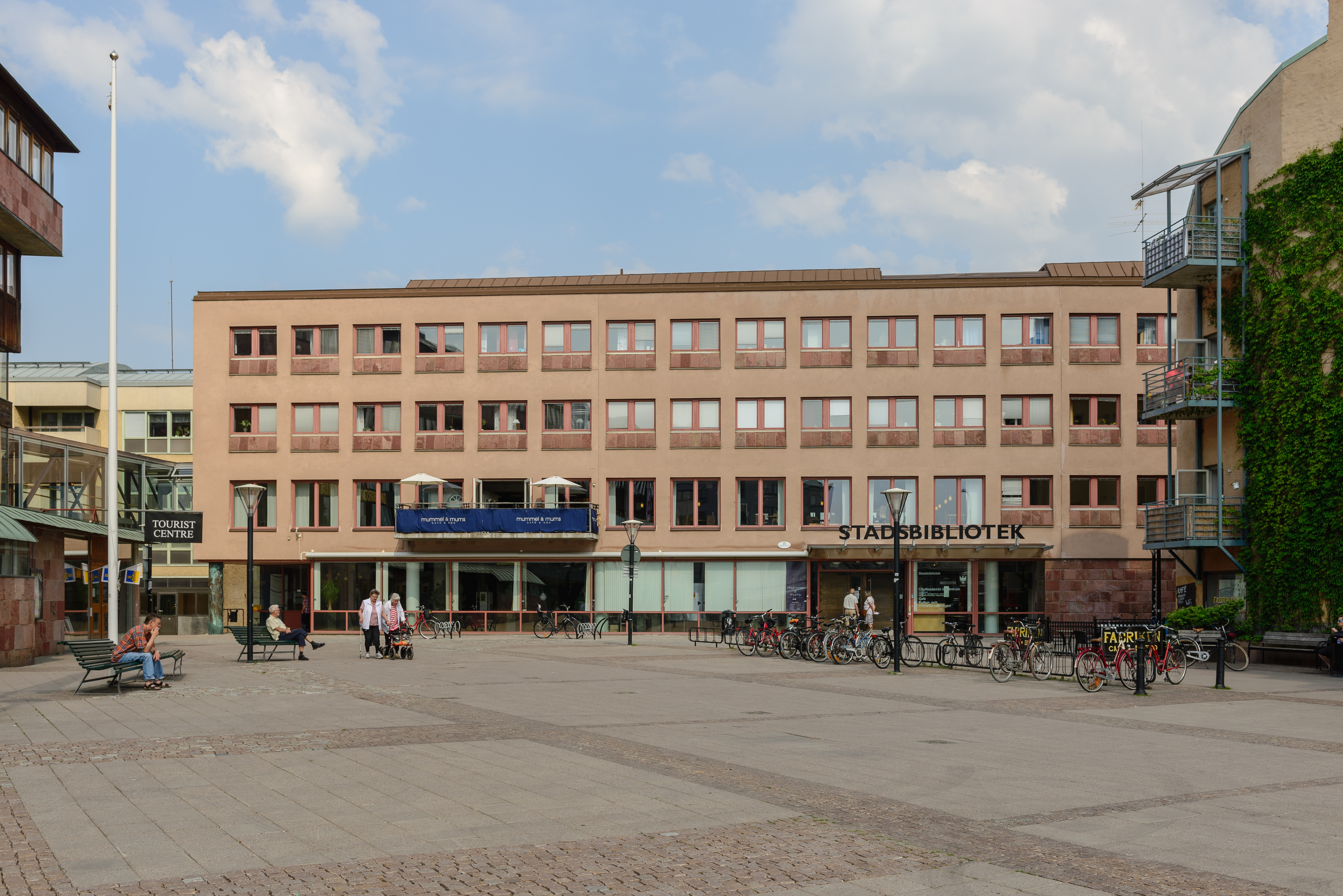 Örebro stadsbibliotek (library).